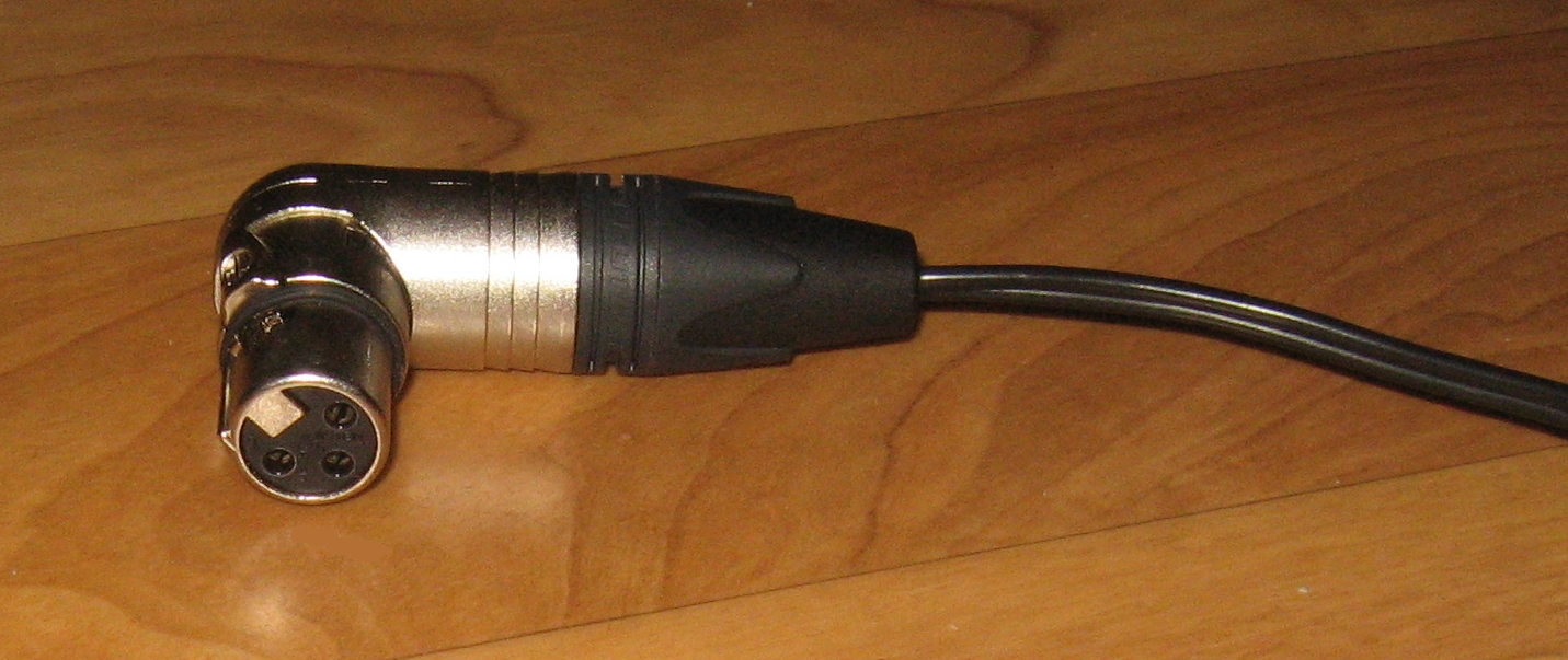 XLR-connector